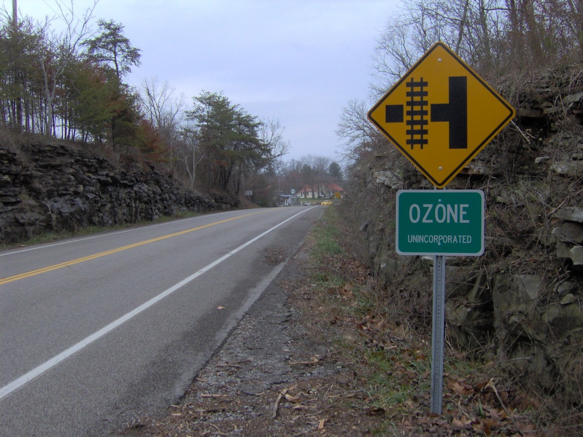 Entrance to Ozone, Tennessee along US-70, located in the Southeastern United States. The Ozone Falls State Natural Area is immediately to the right.